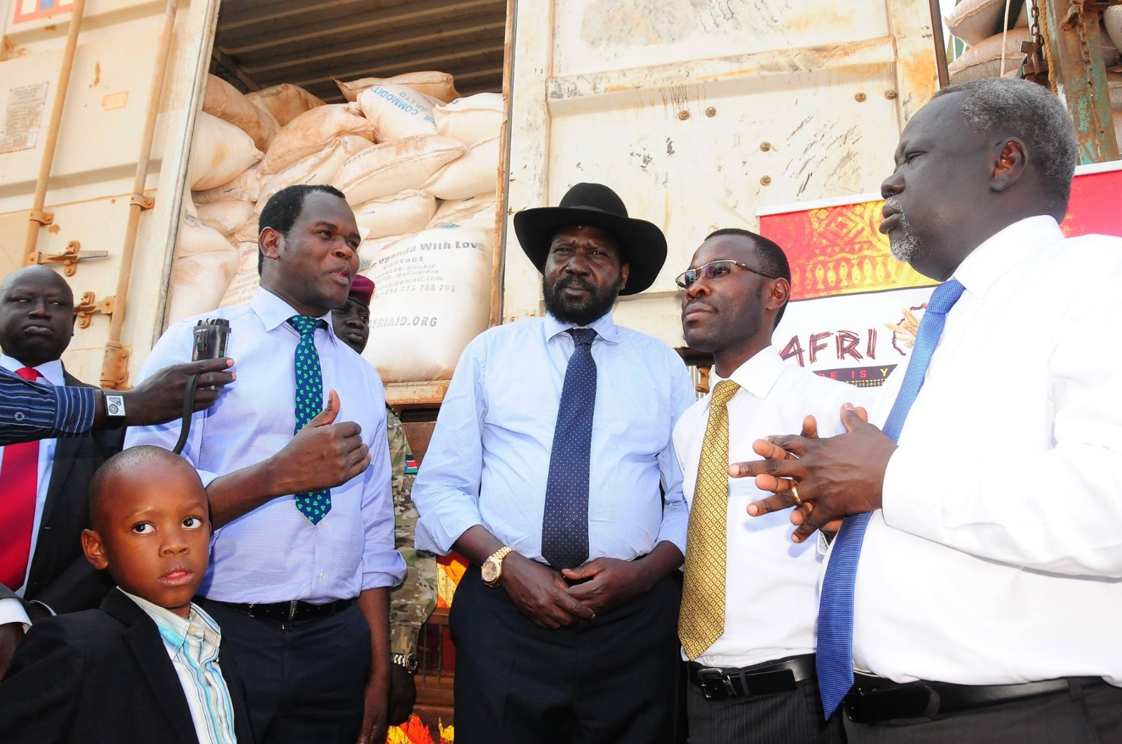 Robert Kayanja